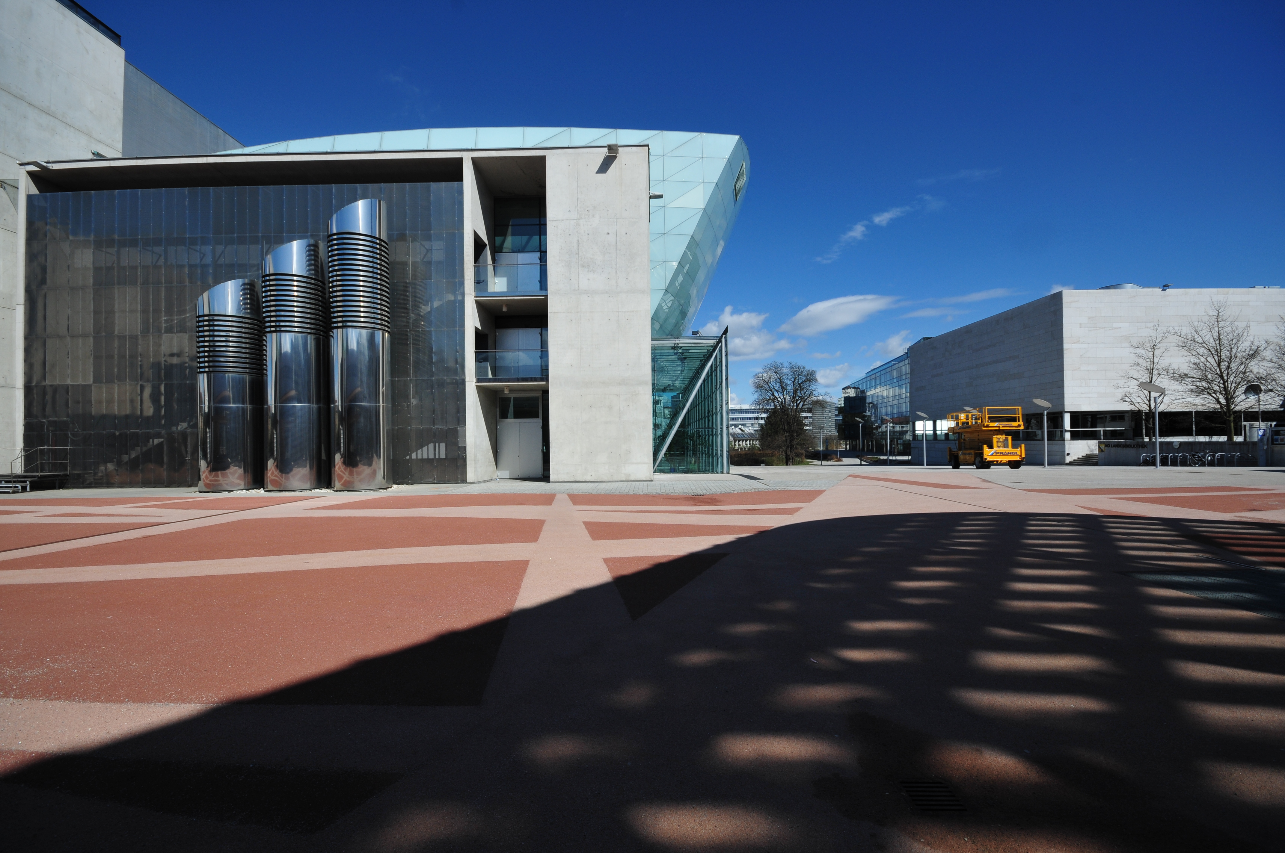 St. Pölten, Austria, Landhausviertel Fotowanderung St. Pölten 13. April 2013 in St. Pölten, Niederösterreich 50mm • Allgemeines • Bahnhof • Domplatz • Fahrräder • Landhausviertel • Rathausplatz